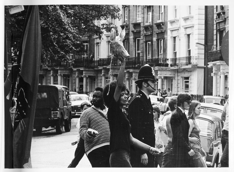 Catalogue reference: MEPO 31/21 (A23) Barbara Beese was a member of the Black Panthers and one of the original Mangrove Nine. After the march Beese was arrested and charged on a number of accounts. She was found not guilty on all. This image is from the collections of The National Archives. Feel free to share it within the spirit of the Commons. For high quality reproductions of any item from our collection, please contact our image library